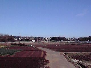 This is a landscape of Sasagi , Tsukuba , Ibaraki , Japan.